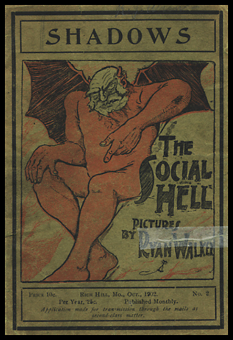 Cover of The Social Hell, by Ryan Walker (1870-1932).